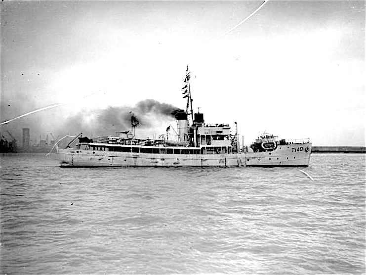 Photograph of British Shakespearian class naval trawler HMT Corialanus, sunk 5 May 1945.